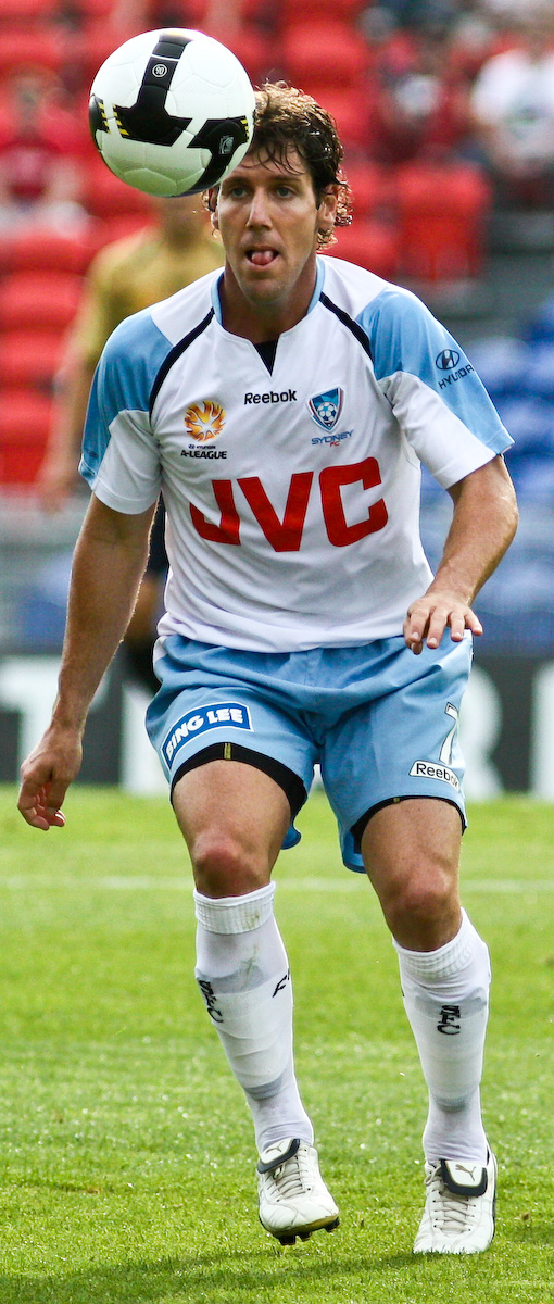 Robbie Middleby playing against the Newcastle Jets